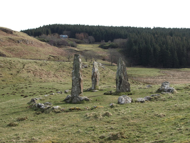 Isle of Mull glengorm's standing stones These standing stones are at the north east of the island on the Glengorm estate they appear to have a stone circle around the three main standing stones.